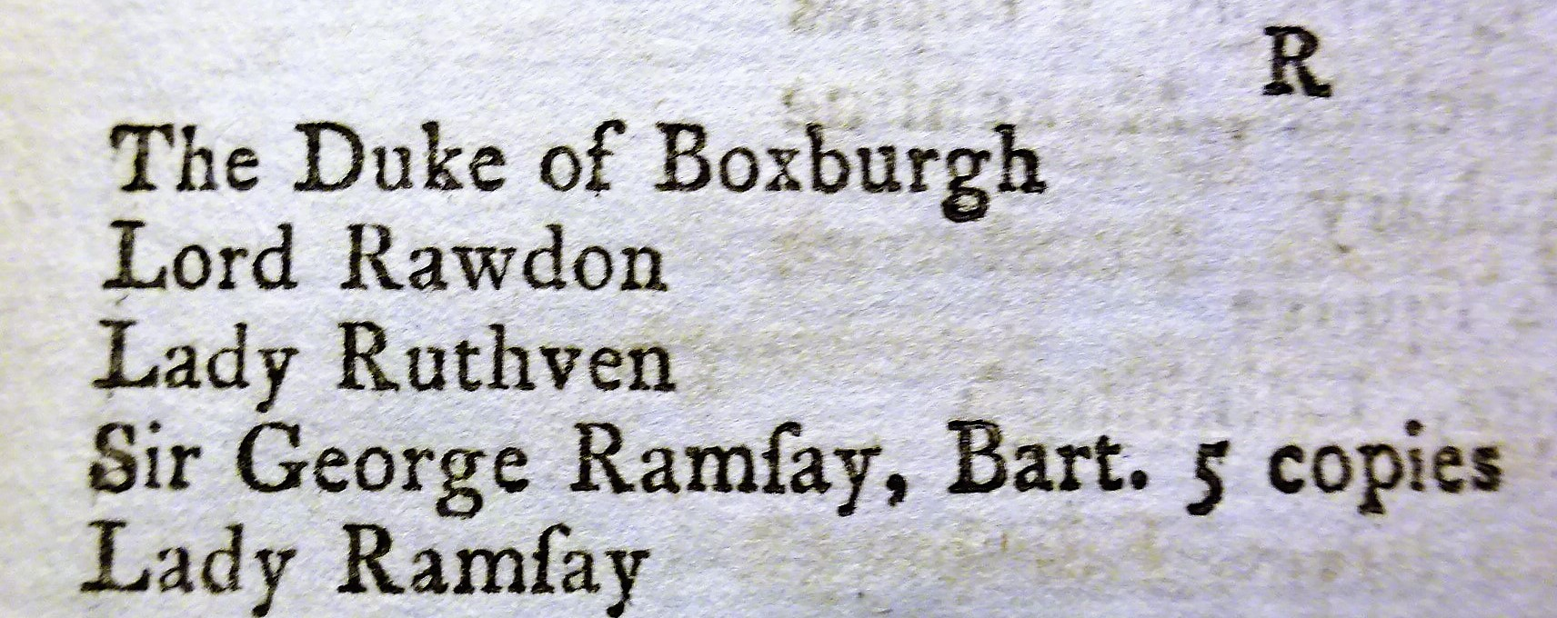 Duke of Boxburgh misprint for Roxburgh, 1787 Edinburgh Edition. Poems Chiefly in the Scottish Dialect. Page xxxvii. Found in both impressions. Robert Burns